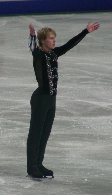 Anton Kovalevski on the 2007 European Figure Skating Championships in Warsaw - free skate